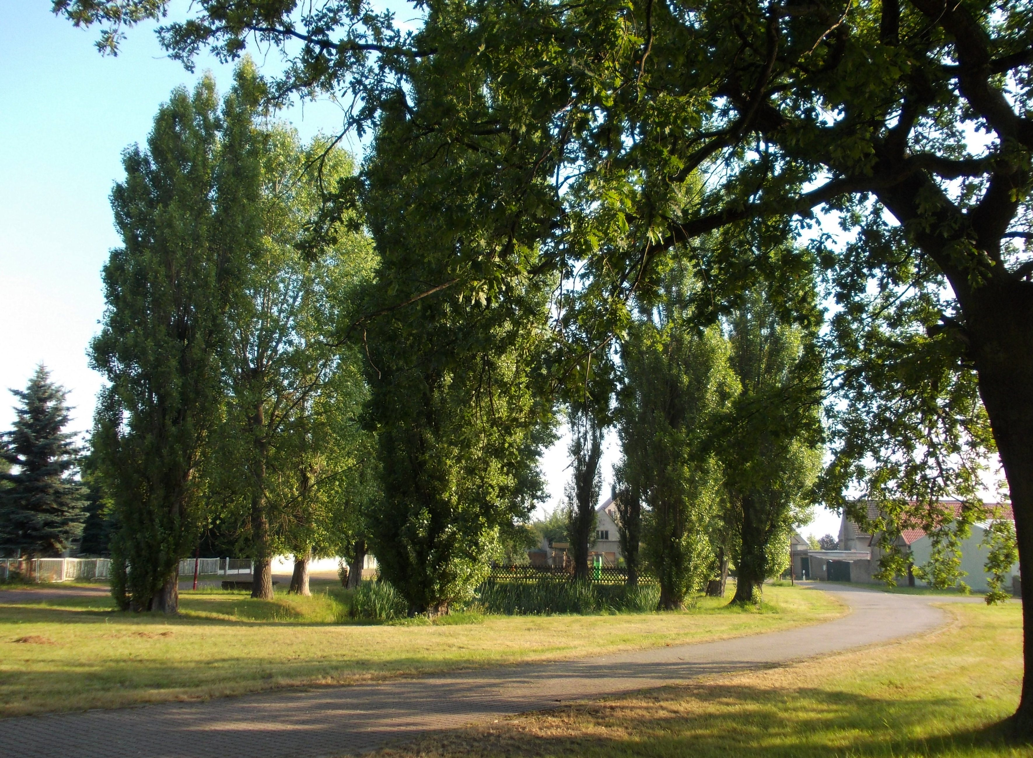 Village green in Krensitz (Krostitz, Nordsachsen district, Saxony)